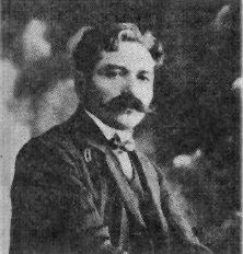 Andranik Toros Ozanian, national hero of Armenia